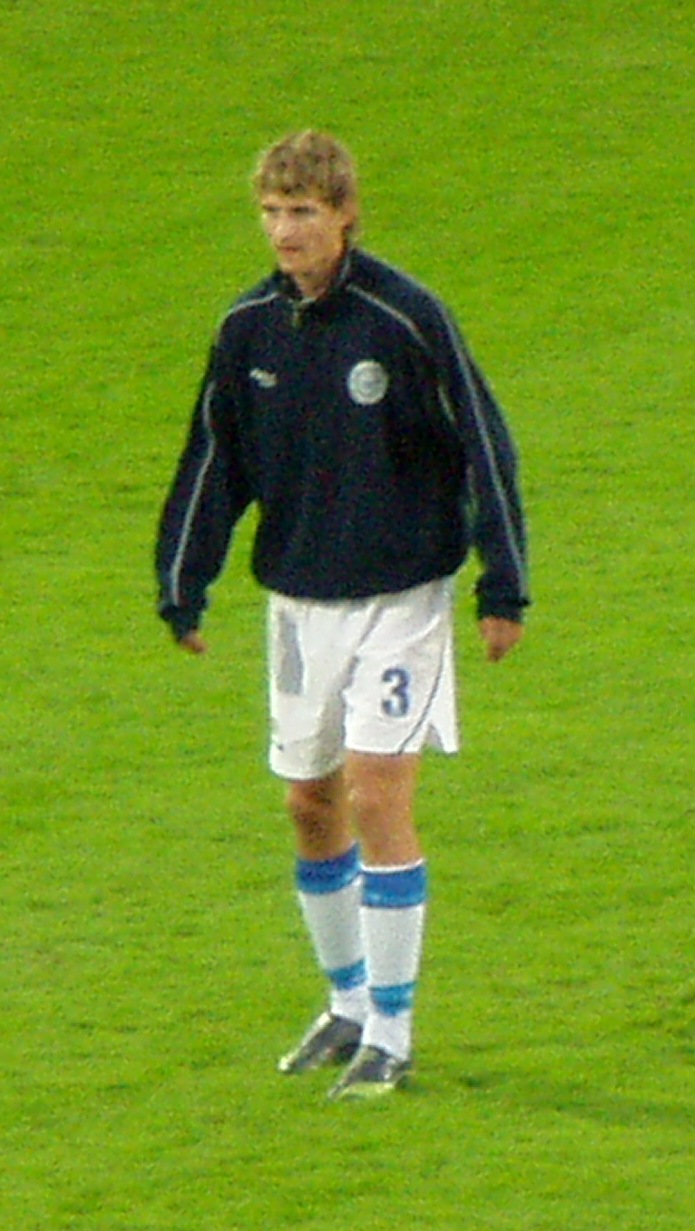 Tamás Kádár in ZTE Arena.